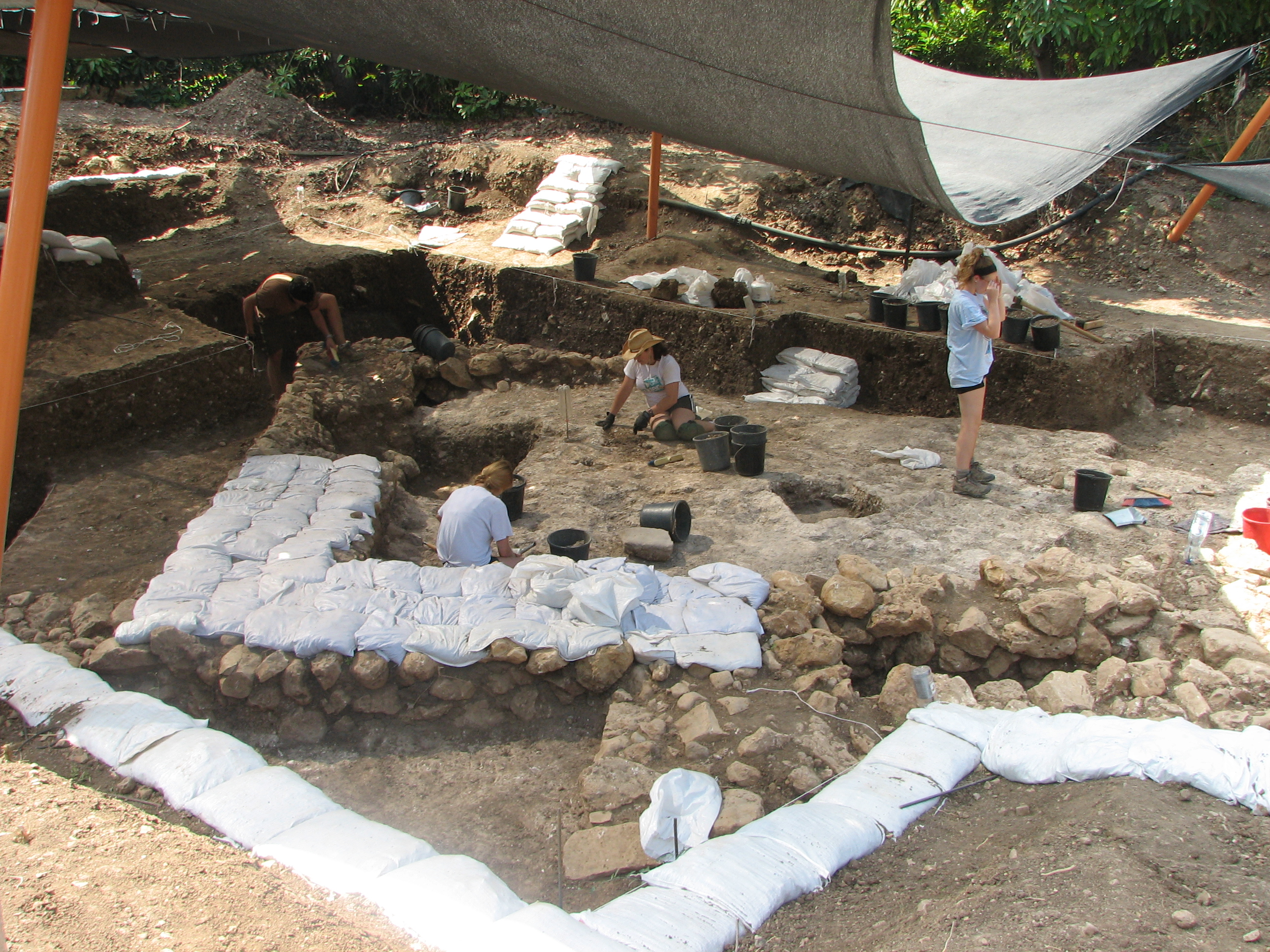 Tell Kabri, is an archaeological site on the grounds of Kibbutz Kabri, near the city of Nahariya, Israel, The tel contains the remains of a Canaanite city from the Middle Bronze Age תל כברי הוא אתר מתקופת הברונזה בשטח החקלאי של קיבוץ כברי. חפירות ארכאולוגיות באתר ביולי 2011